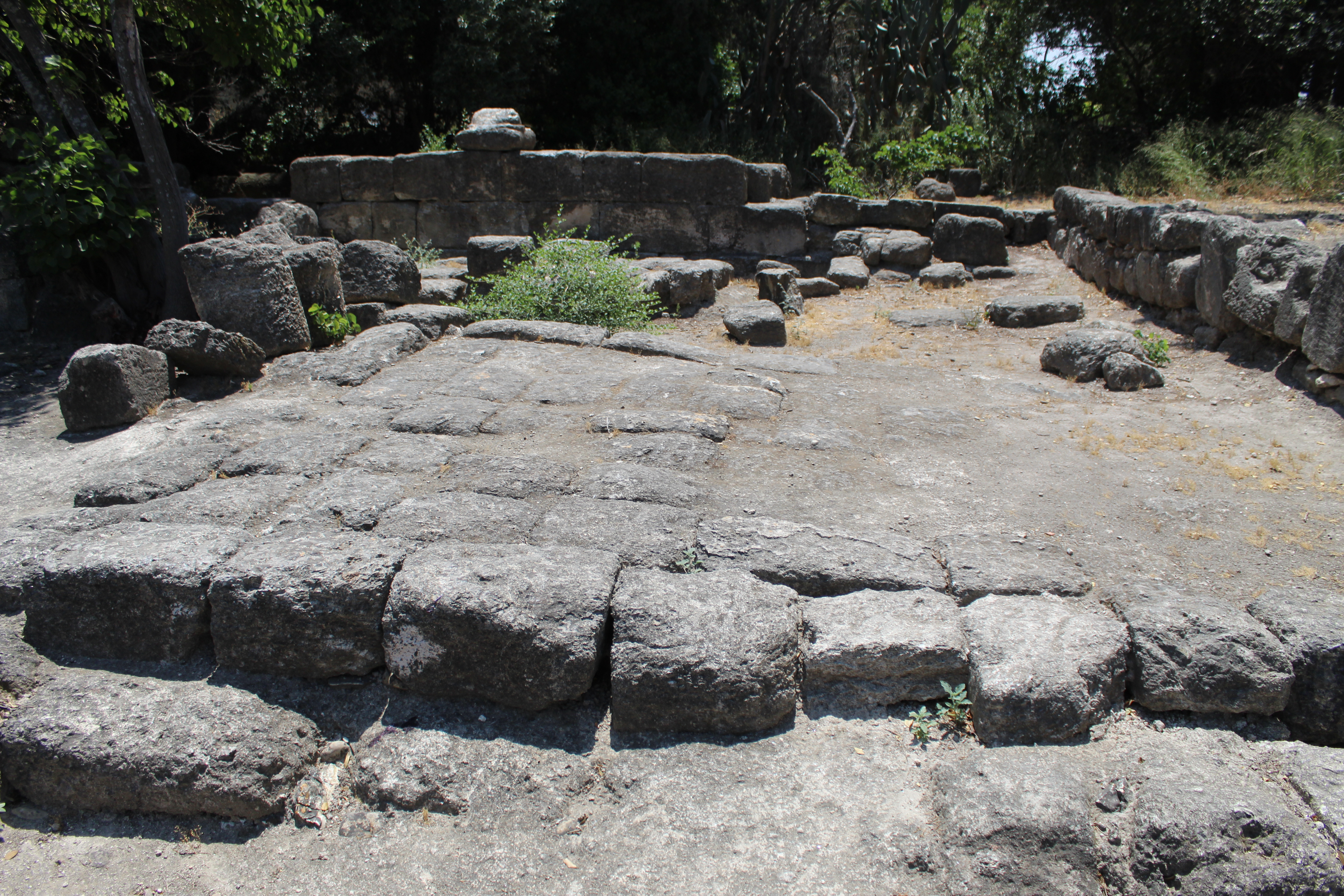 Ancient ruin of Beit Shearim (Sheikh Abreik)